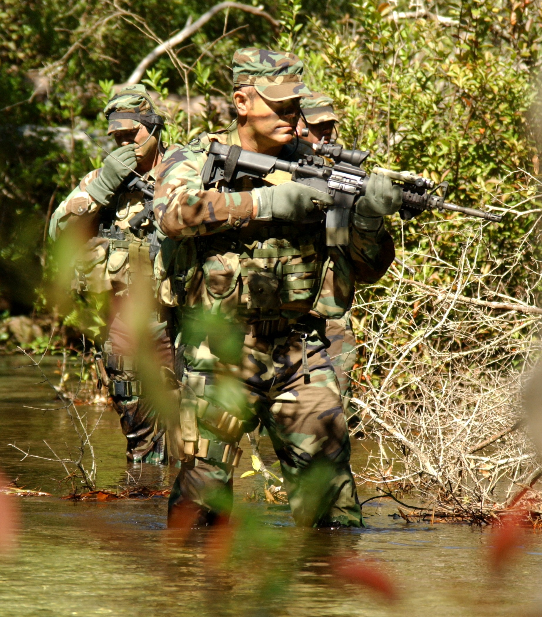 image of US Air Force Special Operators